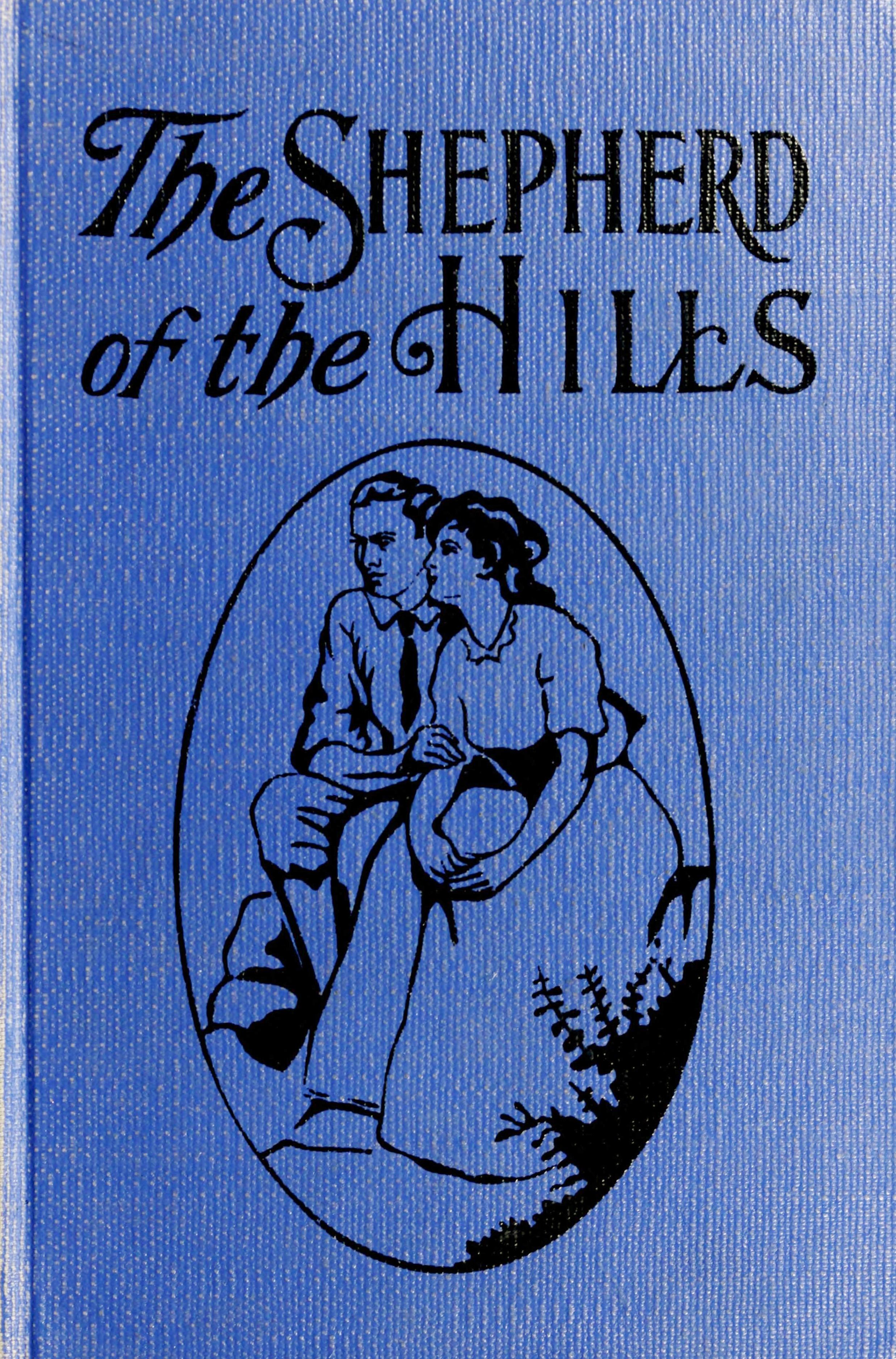 The Shepherd of the Hills, by Harold Bell Wright, 1st edition cover.